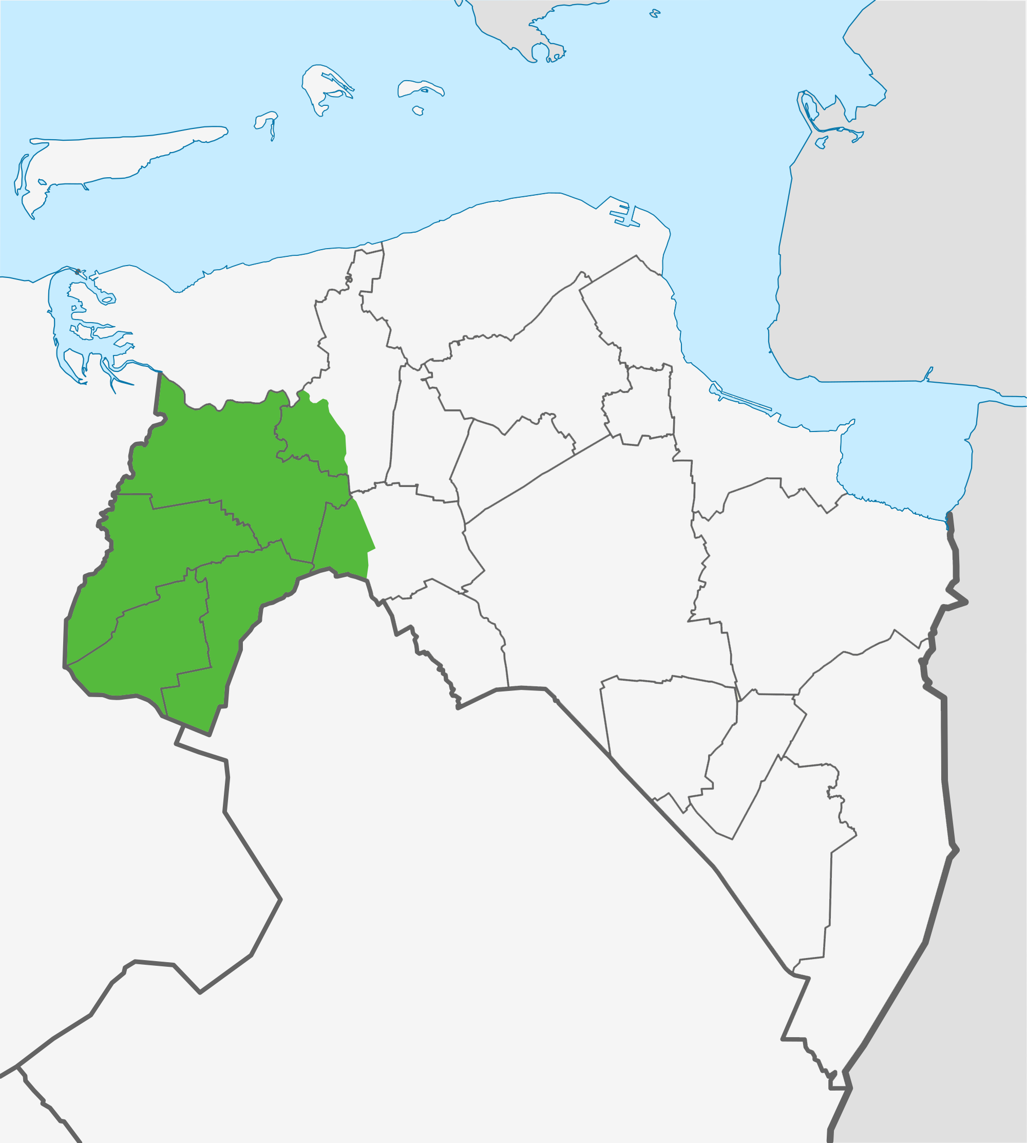 Location of Westerkwartier in the province of Groningen Based on File:Netherlands Groningen location map.svg